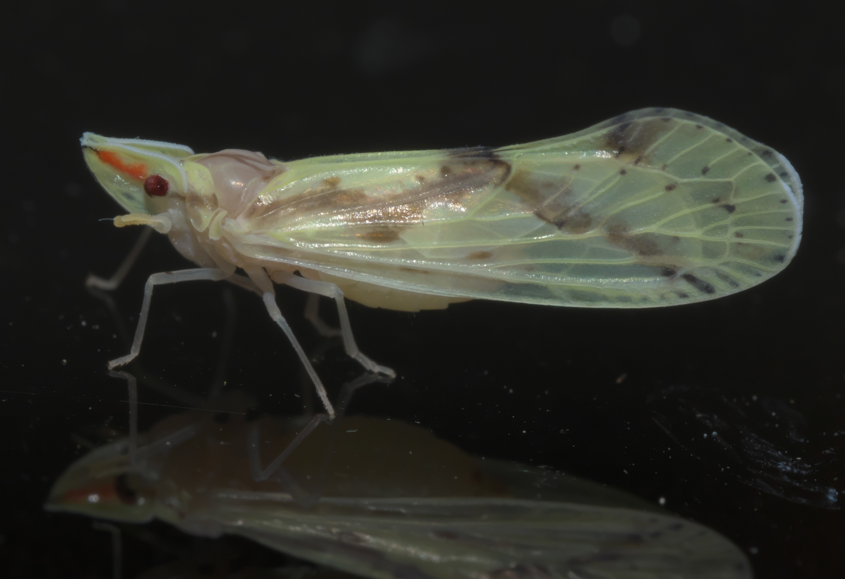 Otiocerus wolfii, Family: Derbid Planthoppers, Size: 10.1 mm, ID Confidence: 98